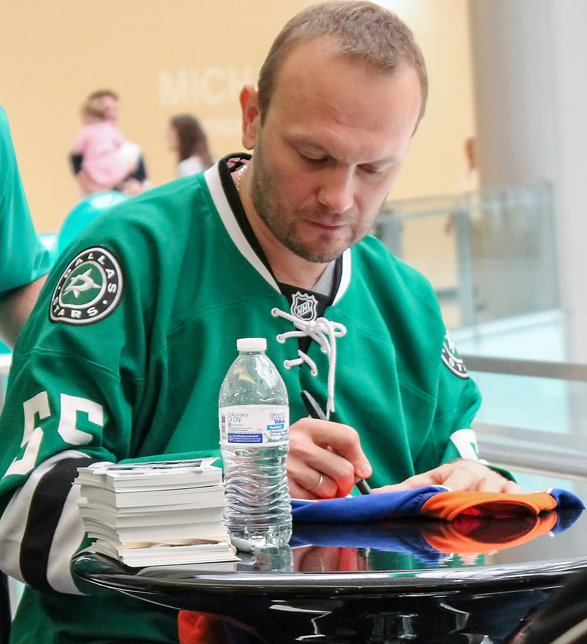 Dallas Stars Ice Breaker 2014 Sept 13, 2014 Galleria Dallas